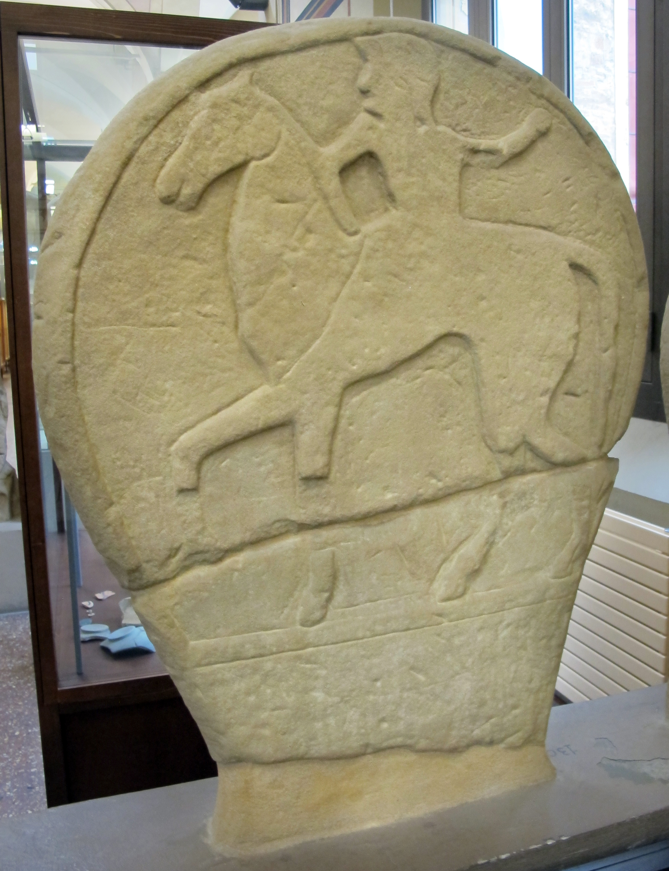 Etruscan antiquities in the Archeological Museum of Bologna